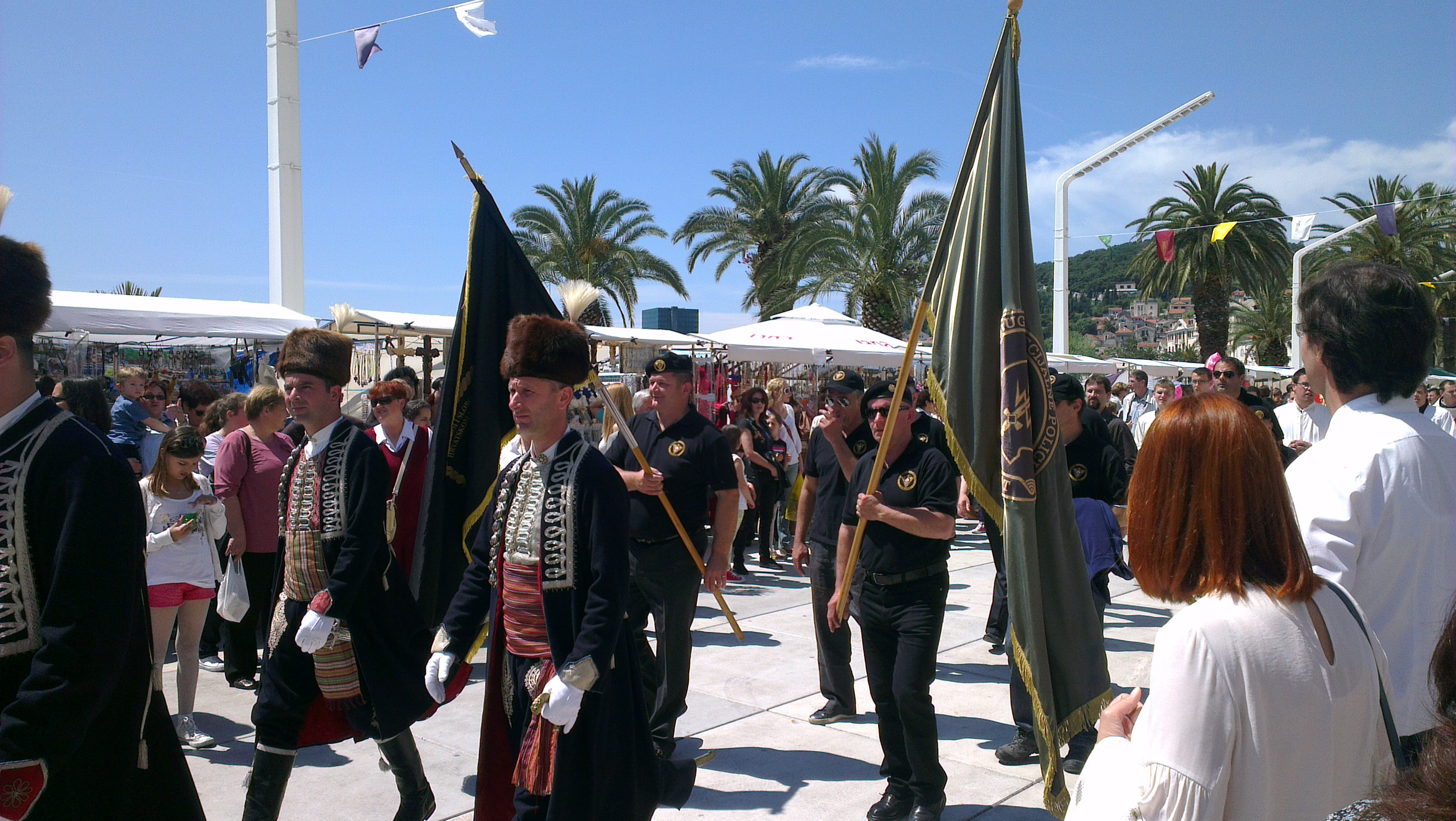 Sudamja